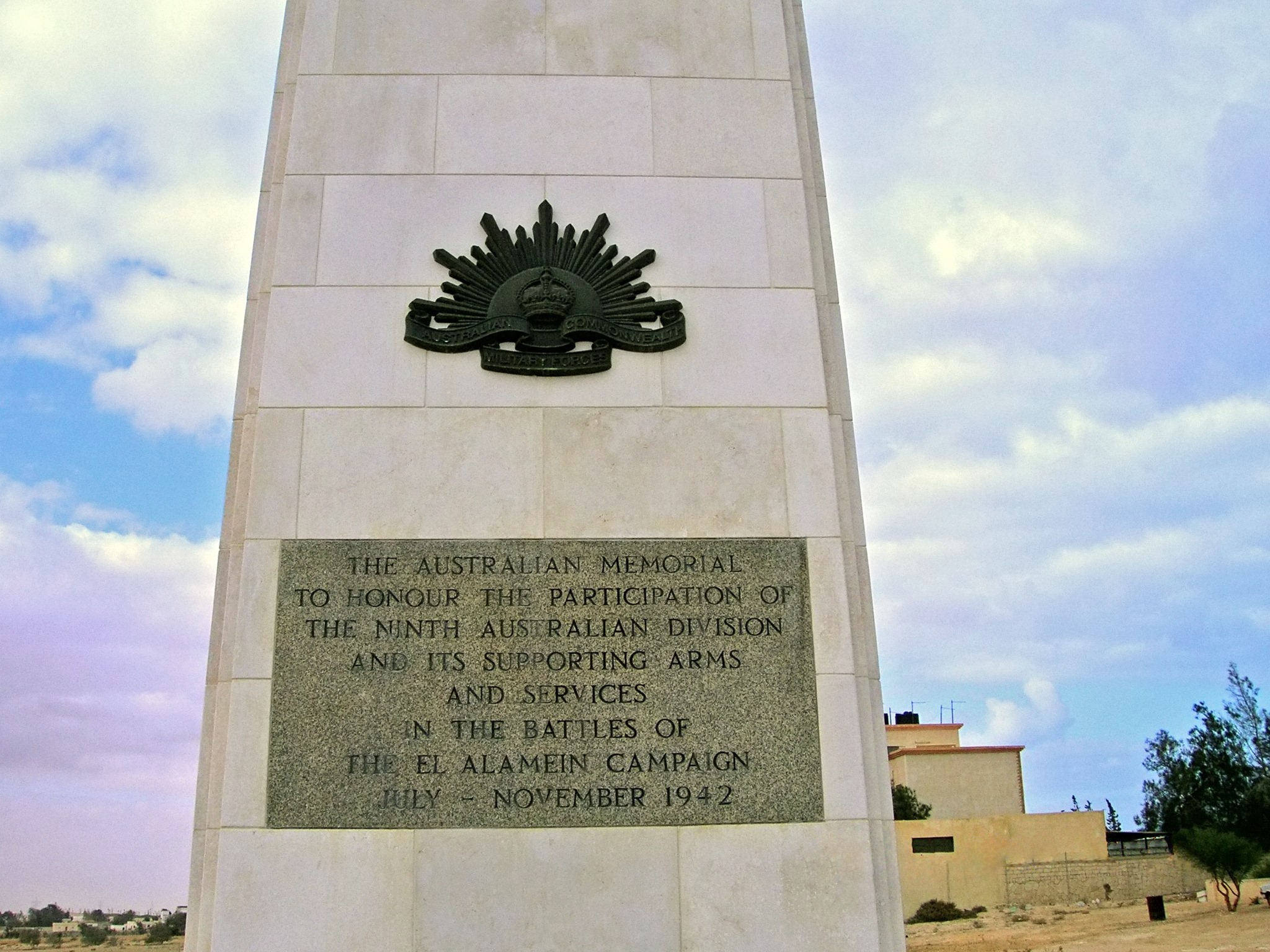 Photo of the memorial at the Allied Cemetery at El Alamein to the Australian 9th Division.